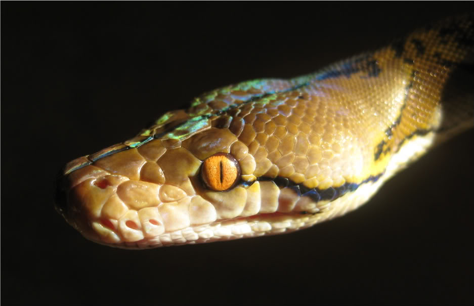 Juvenile Javan reticulated python, animal from my personal collection